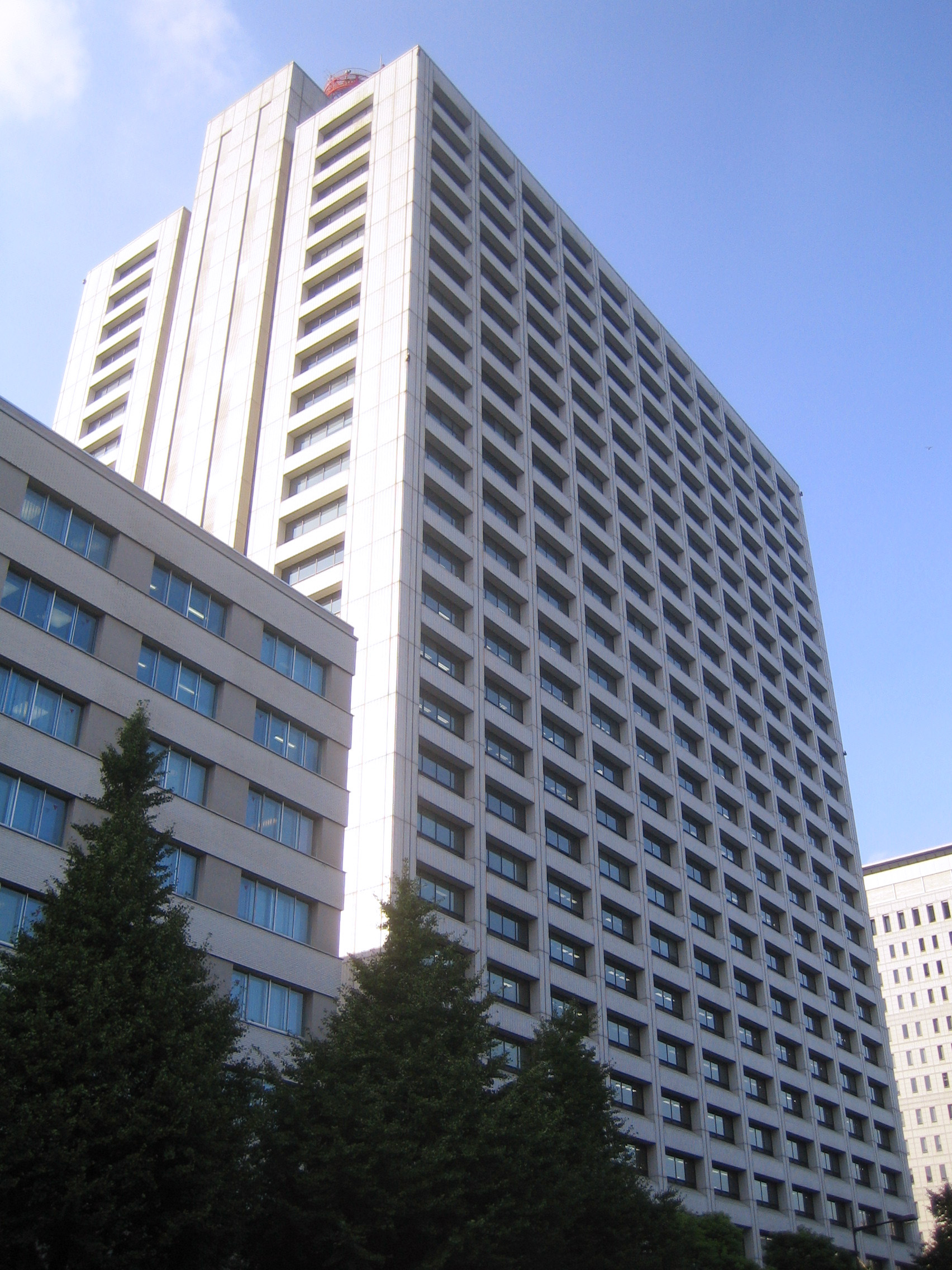 中央合同庁舎第5号館。厚生労働省や環境省が入居する。東京都千代田区霞が関 Central Government Building No.5 (中央合同庁舎第5号館 Chūō Gōdō Chōsha Daigogōkan), at Kasumigaseki, Chiyoda, Tokyo, Japan. Ministry of Health, Labour and Welfare, Ministry of the Environment, etc. are located in this buiding.